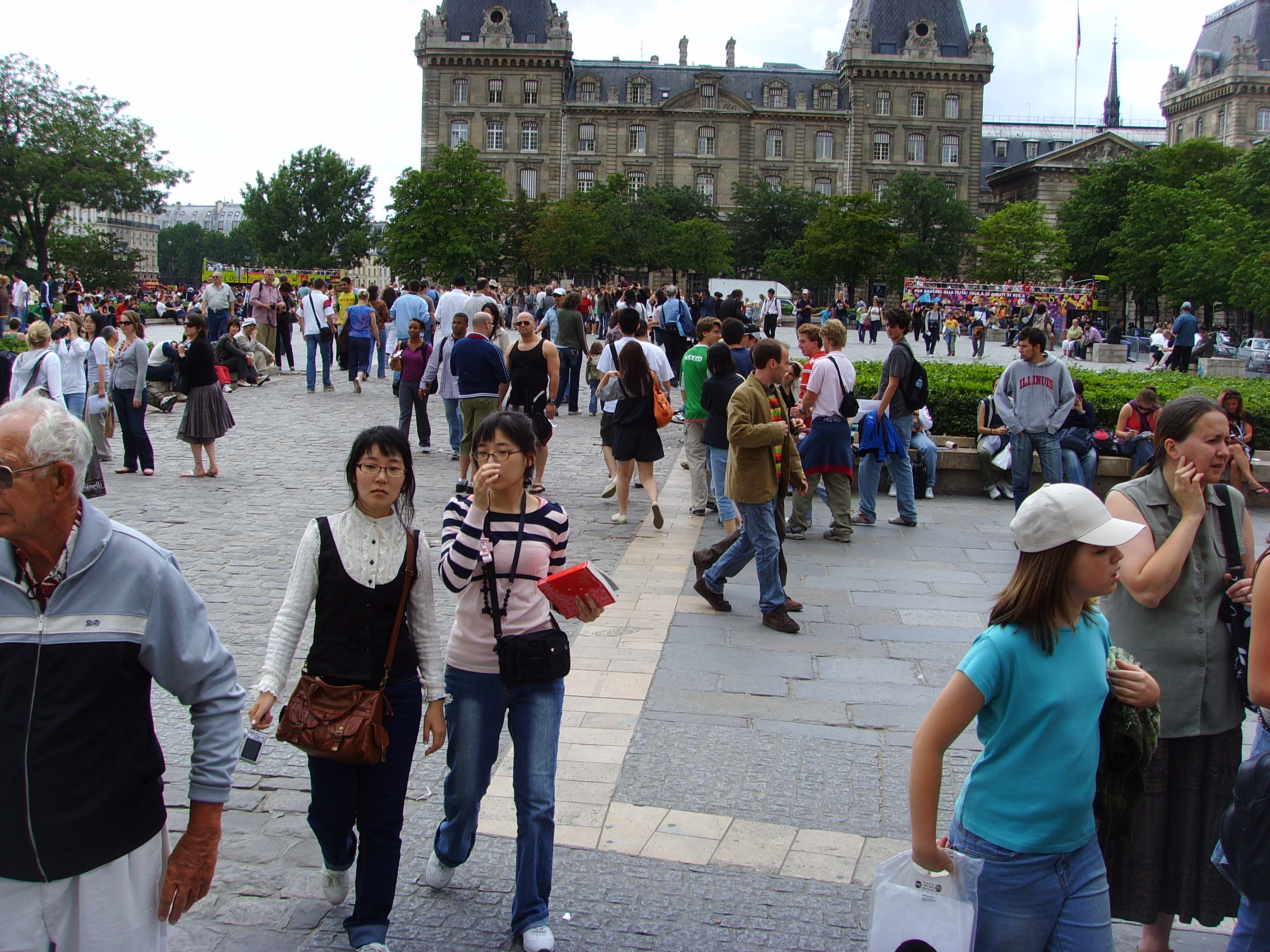 Tourists on the square in front of the Notre-Dame de Paris.